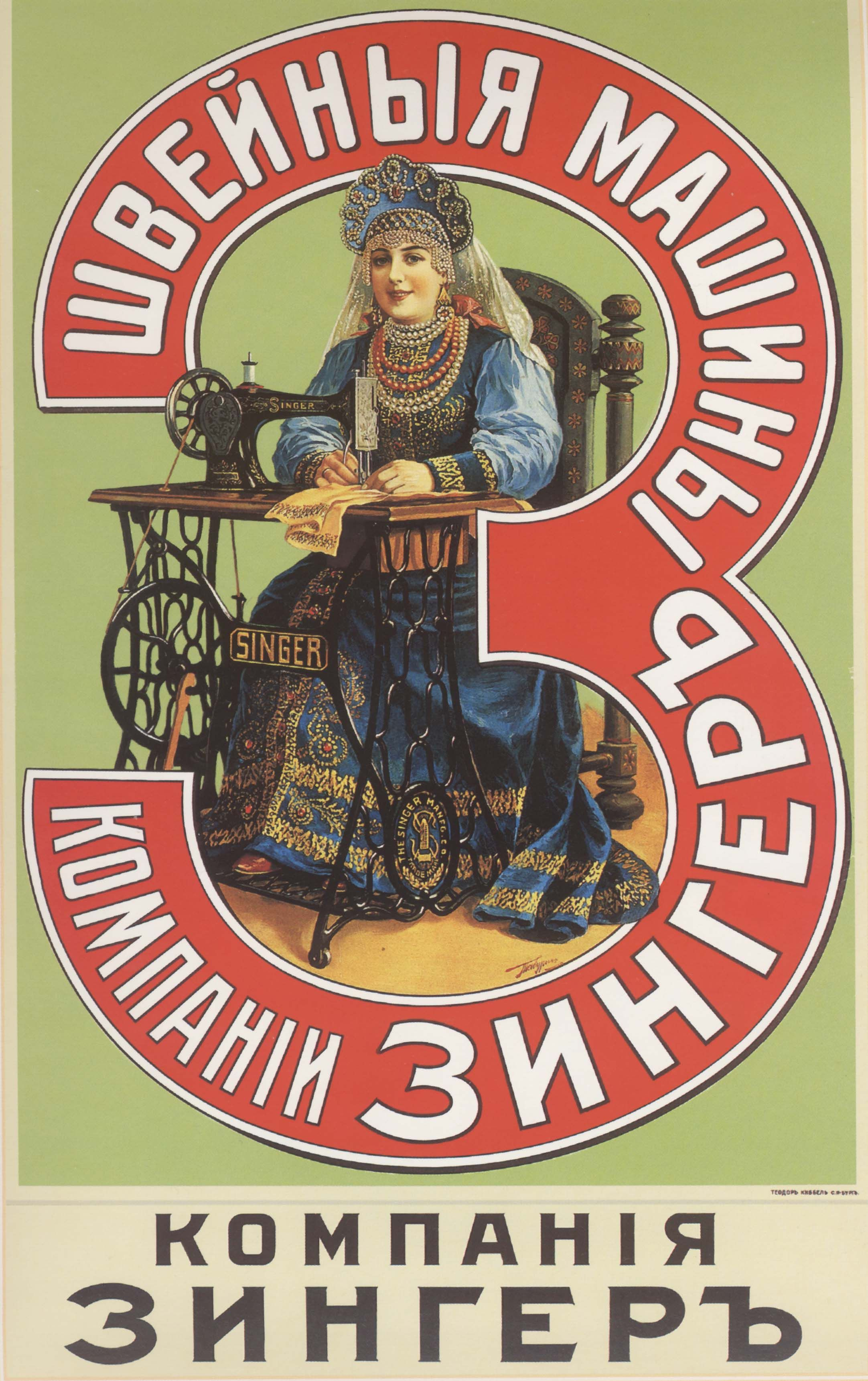 Singer sewing machines advertisement poster. With the name of the Singer sewing machine company in a giant red Cyrillic letter З (reflecting the German pronunciation of "Singer").